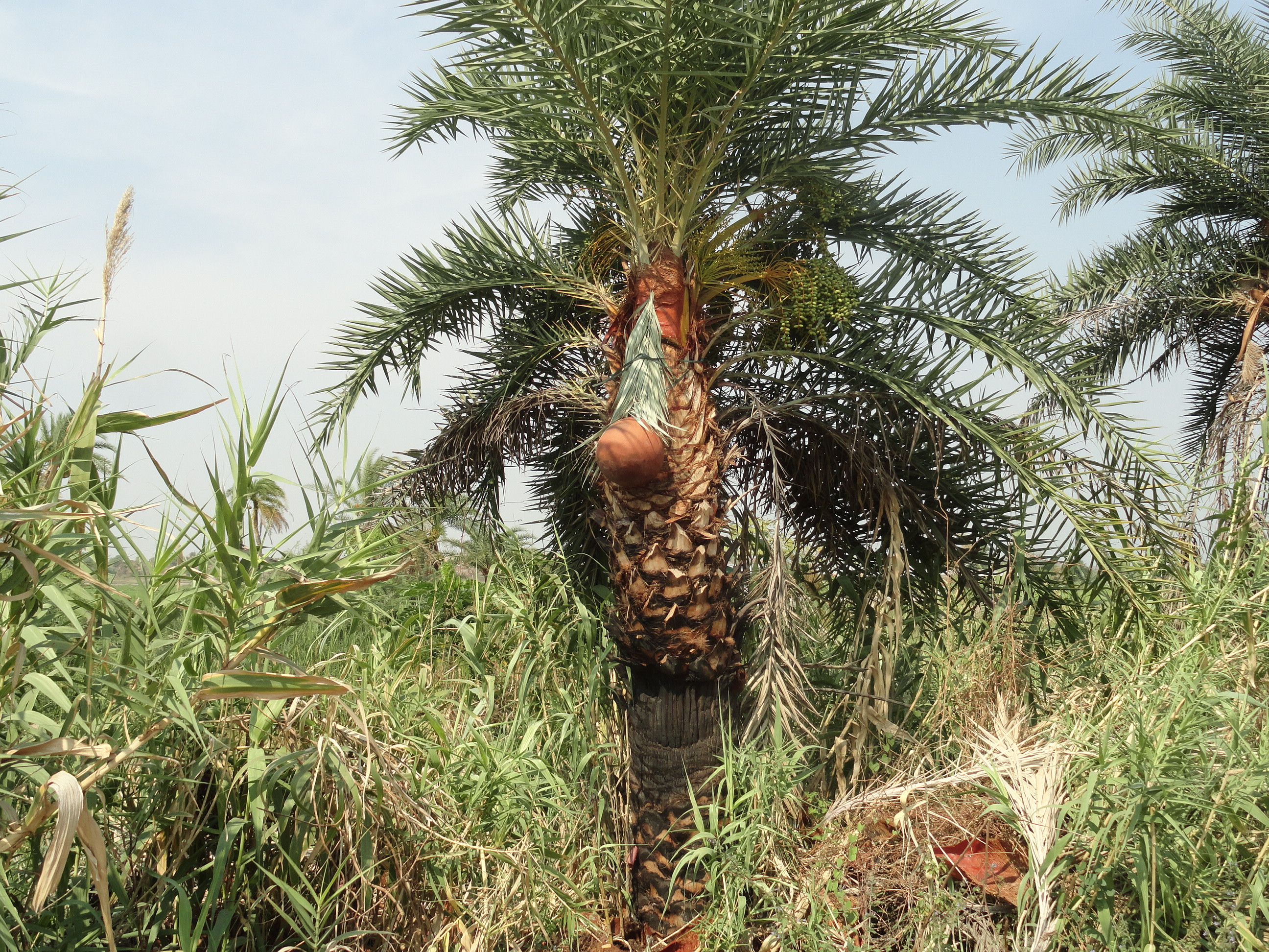 toddy drawing, picture taken near nizamabad